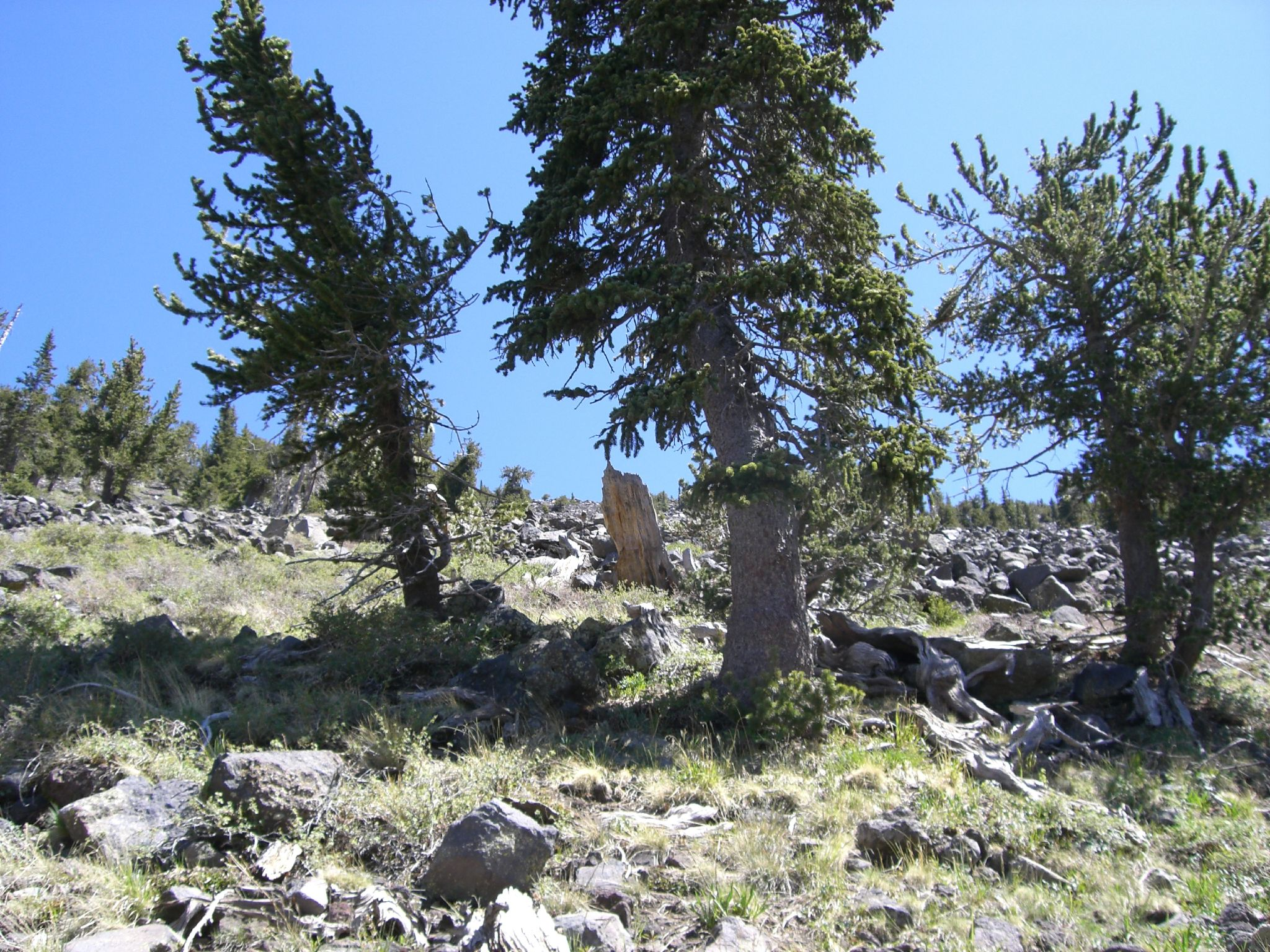 Pinus aristata, Humphreys Peak, Flagstaff, Arizona.